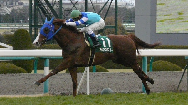 Majin-prosper20120226